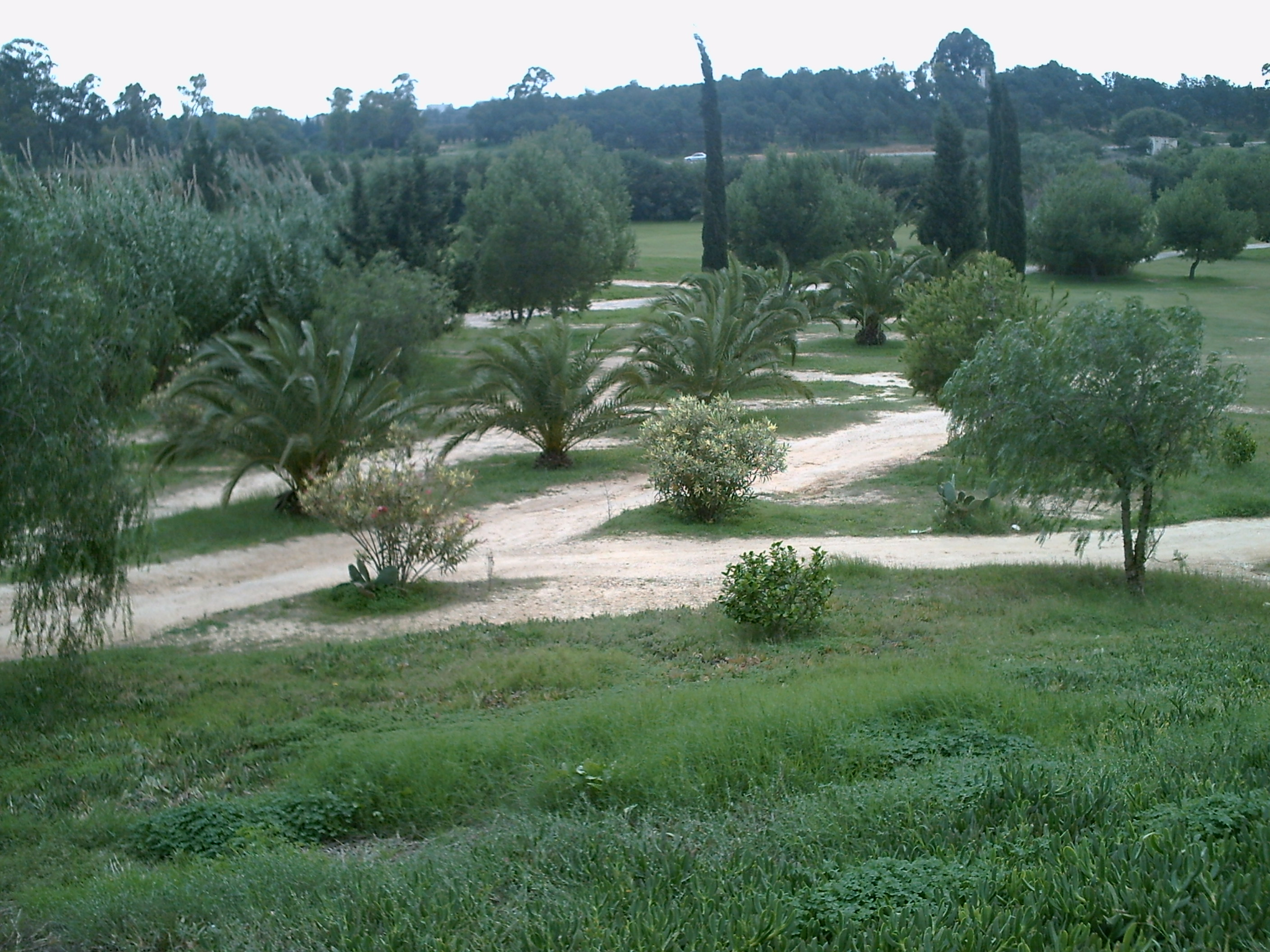 Golf course Citrus in Hammamet, Tunisia